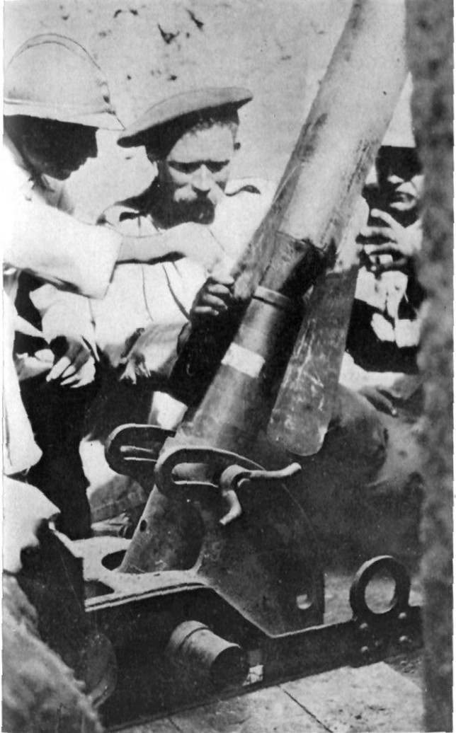 Caption reads : "Frenchman instructiong Servian in Use of Trench Mortar. The shell weighs about 100 pounds". Comment : This shows a Mortier de 58 mm type 2 ("Crapouillot"). The 3 wings on the bomb appear to identify it as the 20kg A.L.S. type. This is probably on the Salonika front.